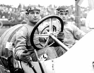 Ralph DePalma and mechanic Tom Alley in the Mercedes that won 250-mile and 300-mile races at Elgin, Ill, Aug. 30 and 31, 1912.